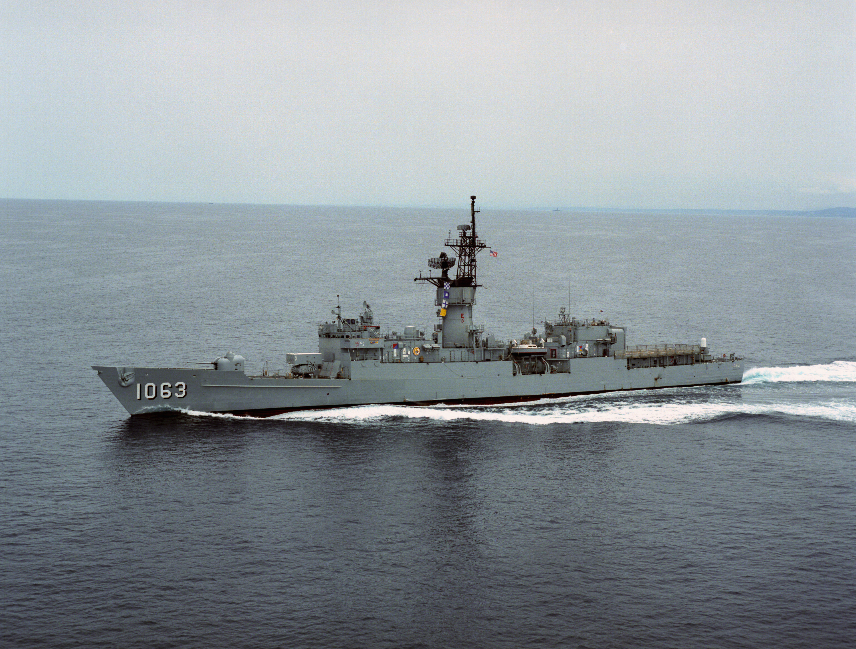 The U.S. Navy frigate USS Reasoner (FF-1063) underway off San Diego, California (USA), on 14 June 1991.